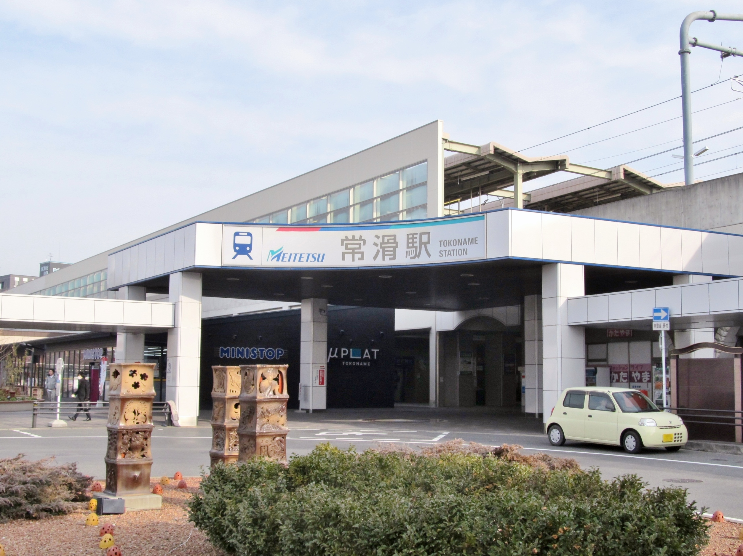 Nagoya Railroad Tokoname Line Tokoname Station West Gate